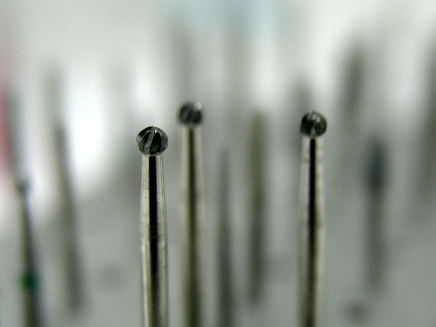 Round drills for dentistry. The photo was taken the 23rd December 2005 by Håkan Svensson (Xauxa).